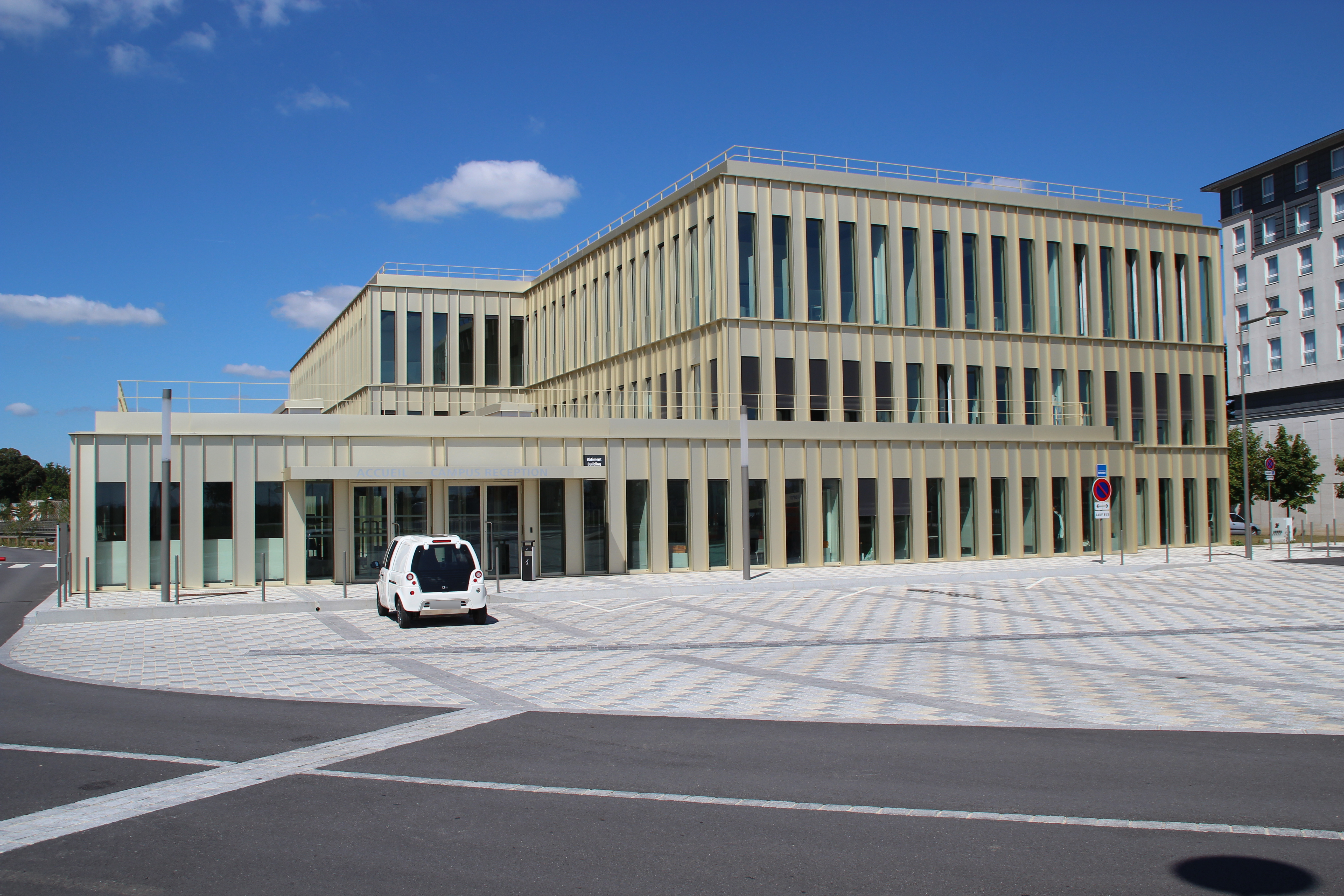 École des hautes études commerciales de Paris August, the 20th 2013 in Saclay, France.